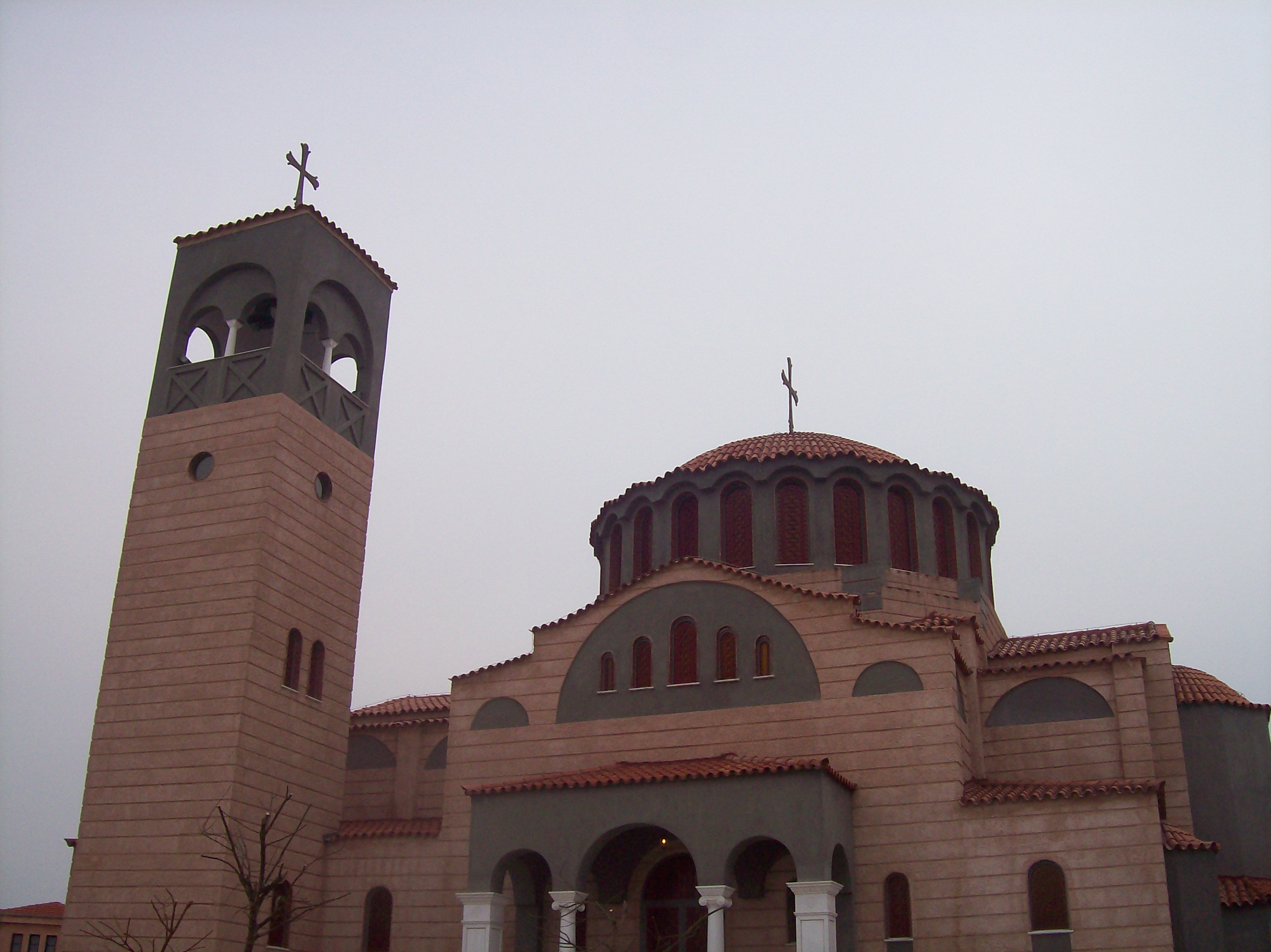 Church at a mall in Thessaloniki by Tilemahos Efthimiadis